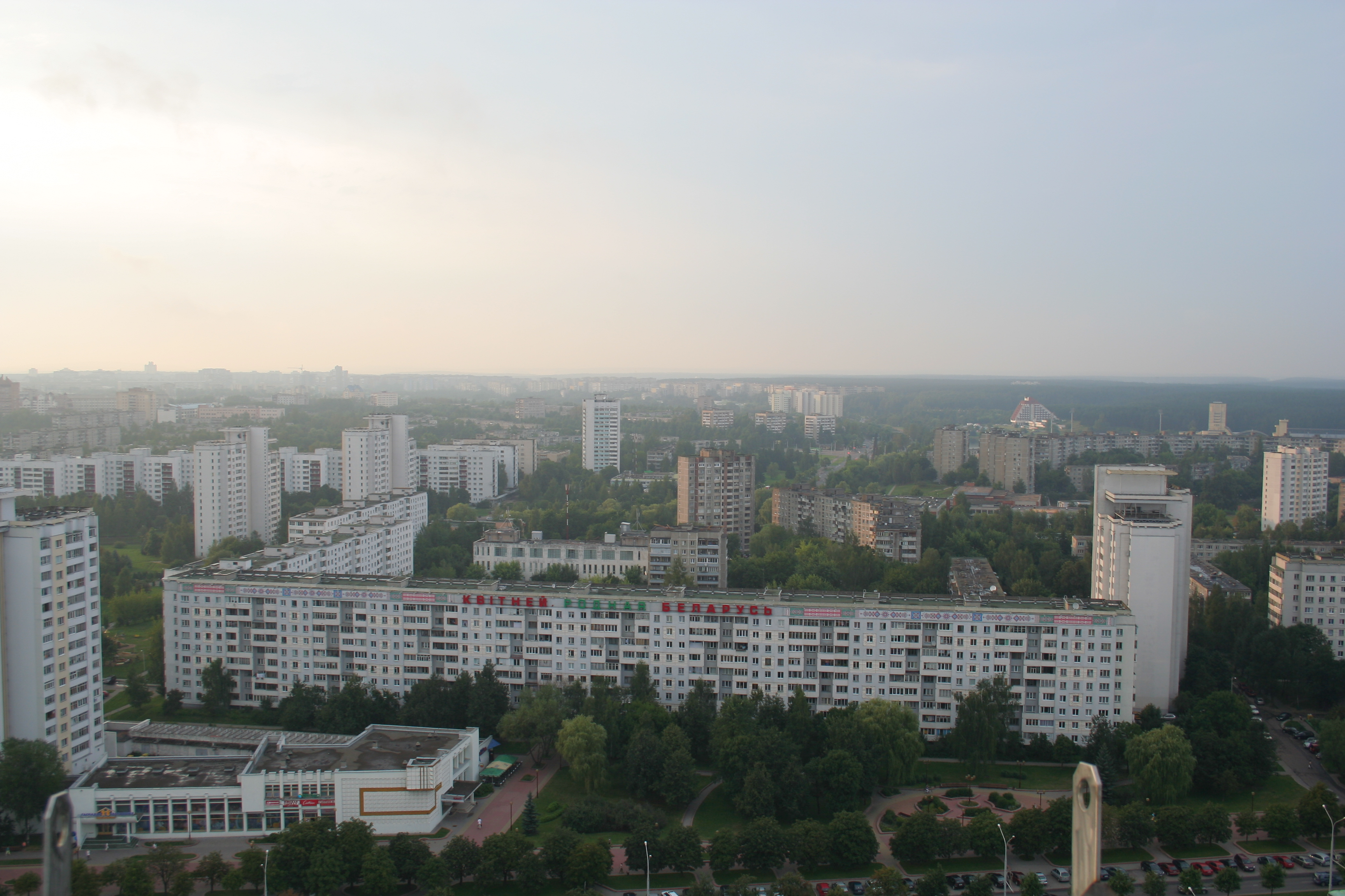 Views of Minsk (Belarus). View from observation deck of the National Library.